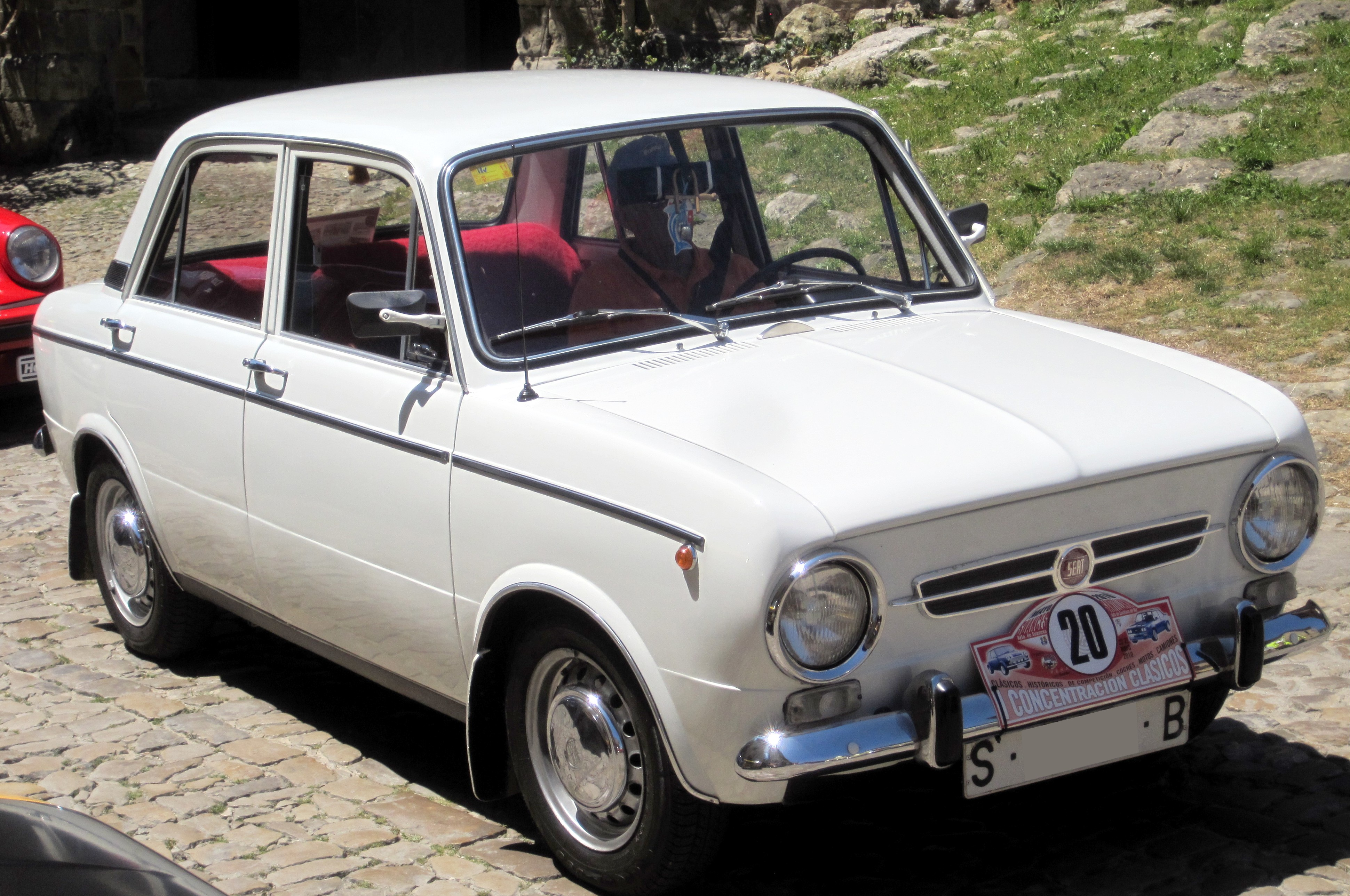 mmmmmm love 850s... This one looked just great. 1973 plates from Santander (Cantabria), was seen Suances (Cantabria).